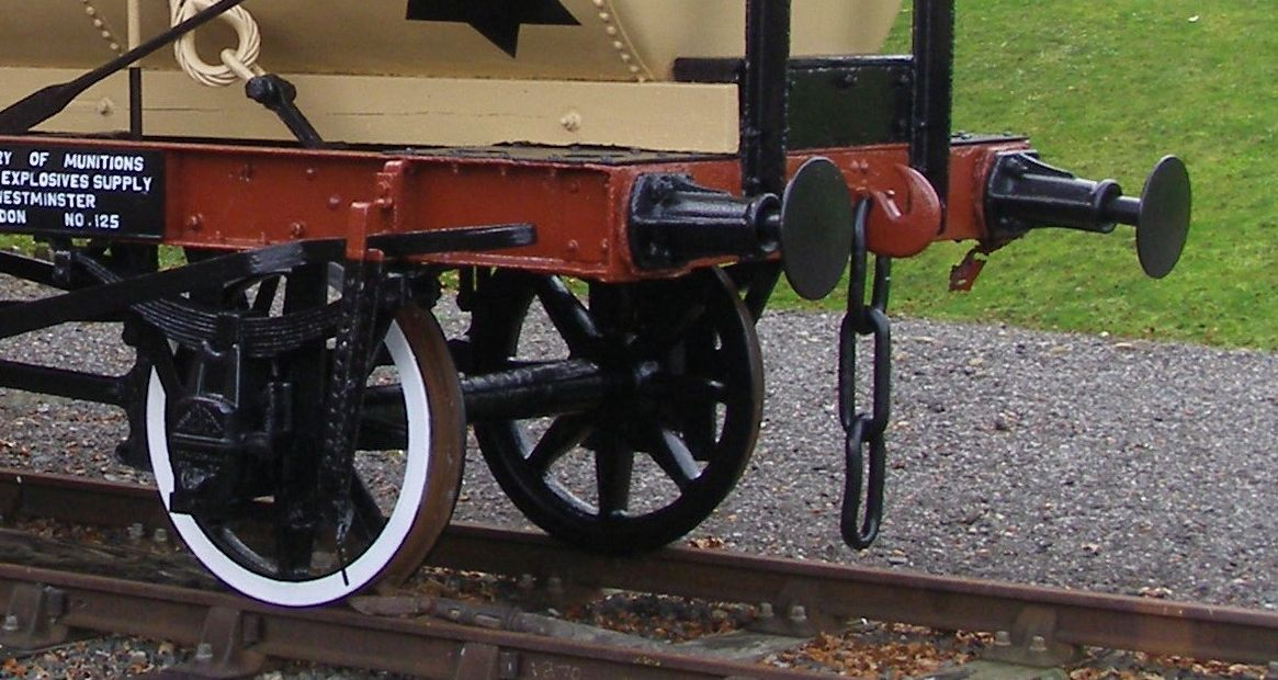 Close up of coupling and buffer beam. A 10-Ton tank wagon No. 41, built in 1917 for Consett Iron Company Limited (and then passed on to the London & North-Eastern Railway), seen at the Beamish Museum, County Durham, England, following restoration. It's seen here at the western end of the Town railway, on the north of the two sidings that enter a shed incorporated into the north side of the Waggon & Iron Works.